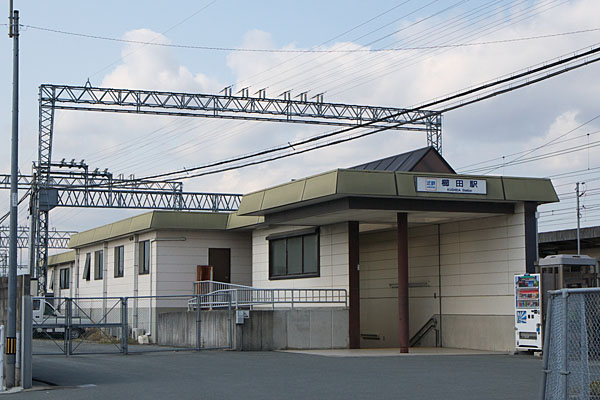 Kushida station of Kinki Nippon Railway. In Matsusaka, Mie, Japan.